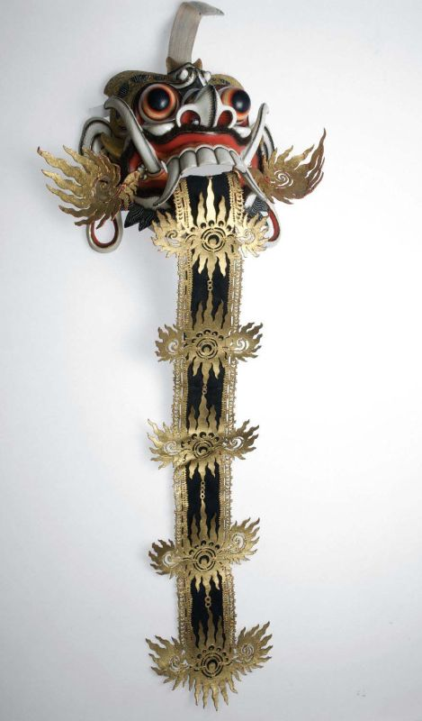 Wooden mask representing the witch Rangda.